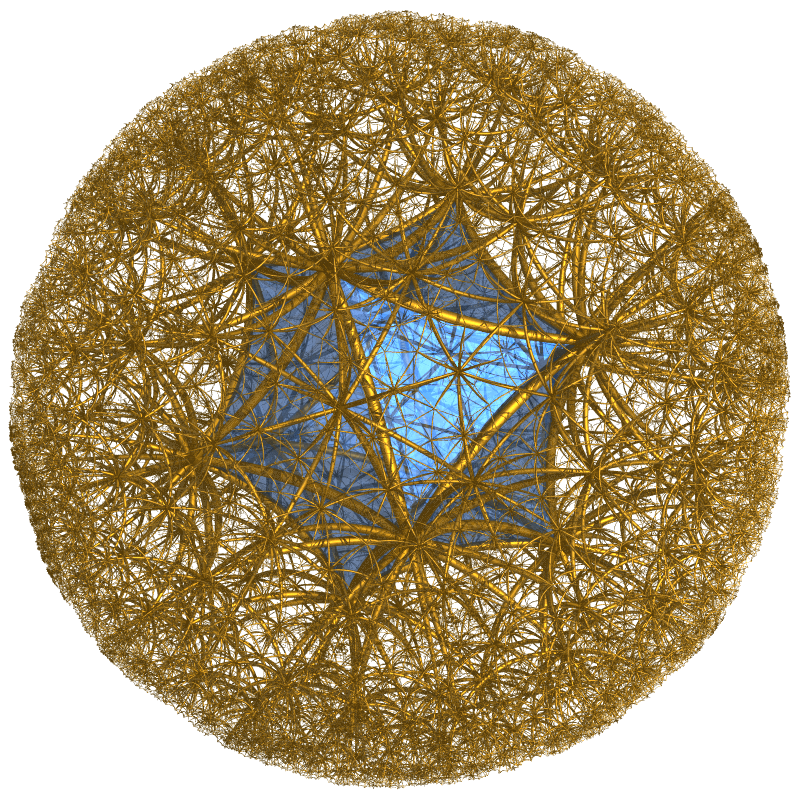 Order-3 icosahedral honeycomb (Sphere Model)